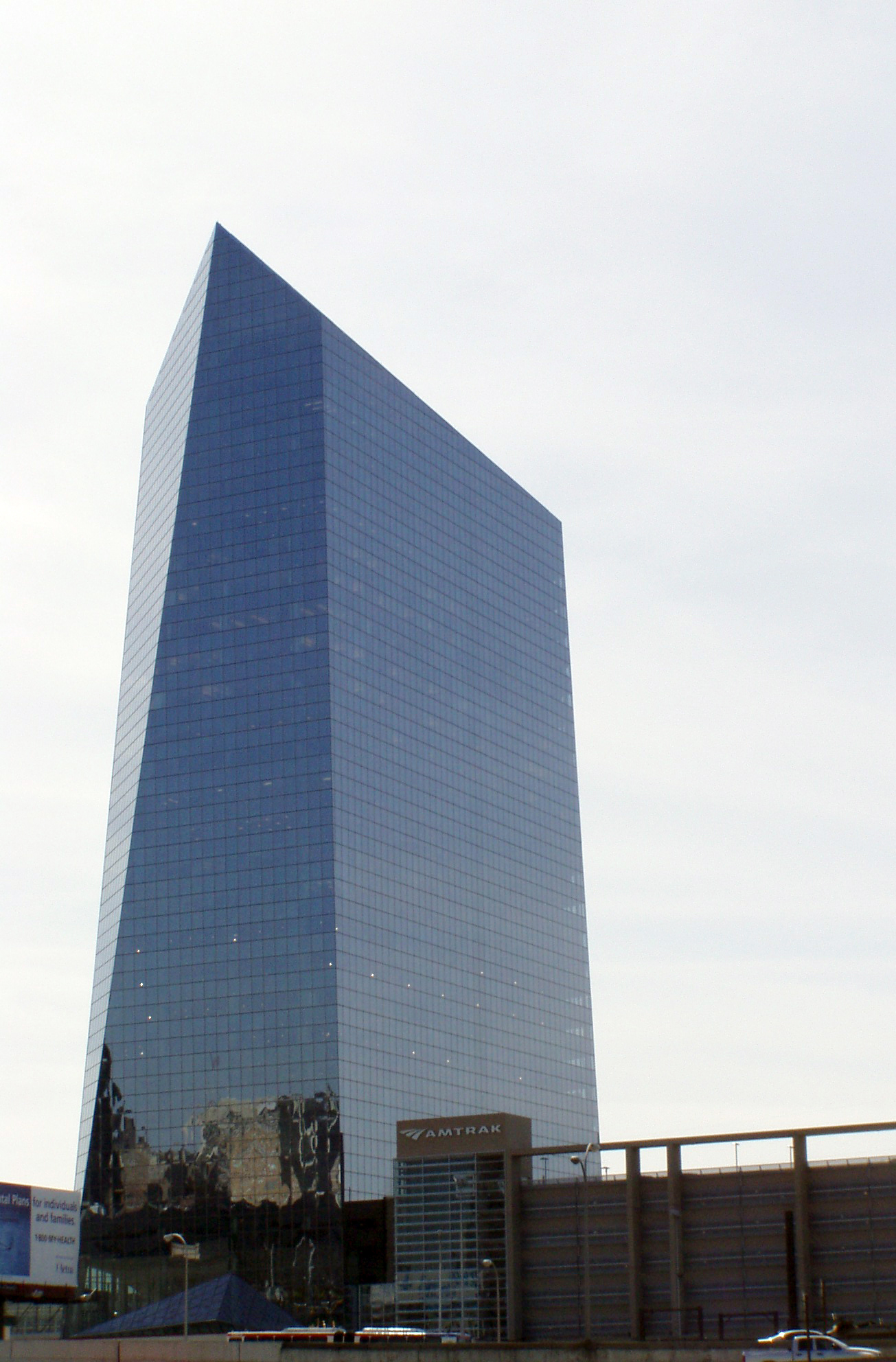 The eastern aspect of the Cira Centre in Philadelphia, Pennsylvania.